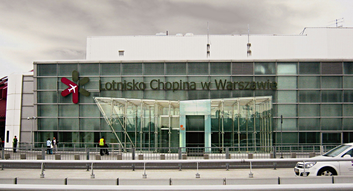 Warsaw Frederic Chopin Airport (WAW/EPWA)